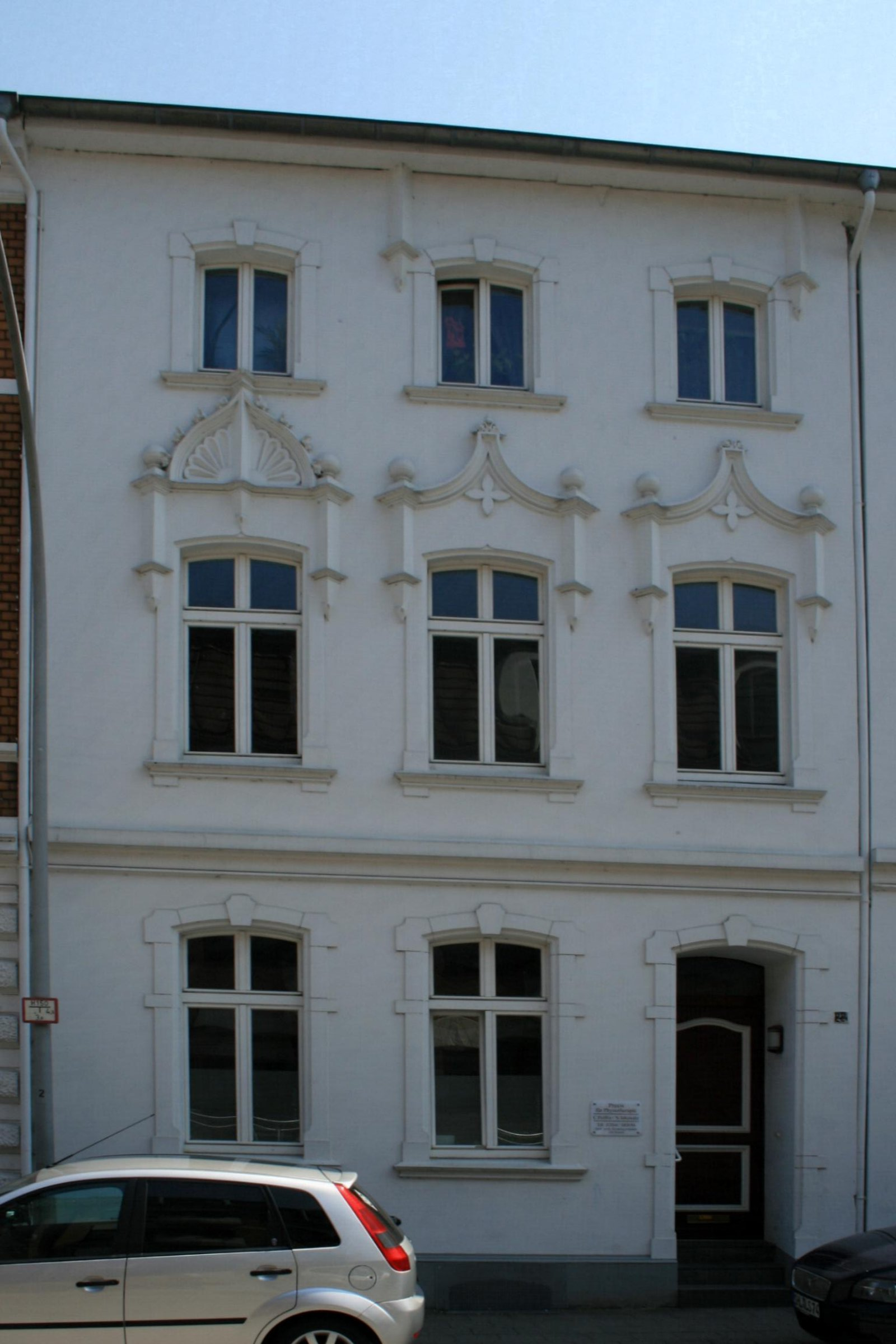 Cultural heritage monument No. Sch 015 in Mönchengladbach